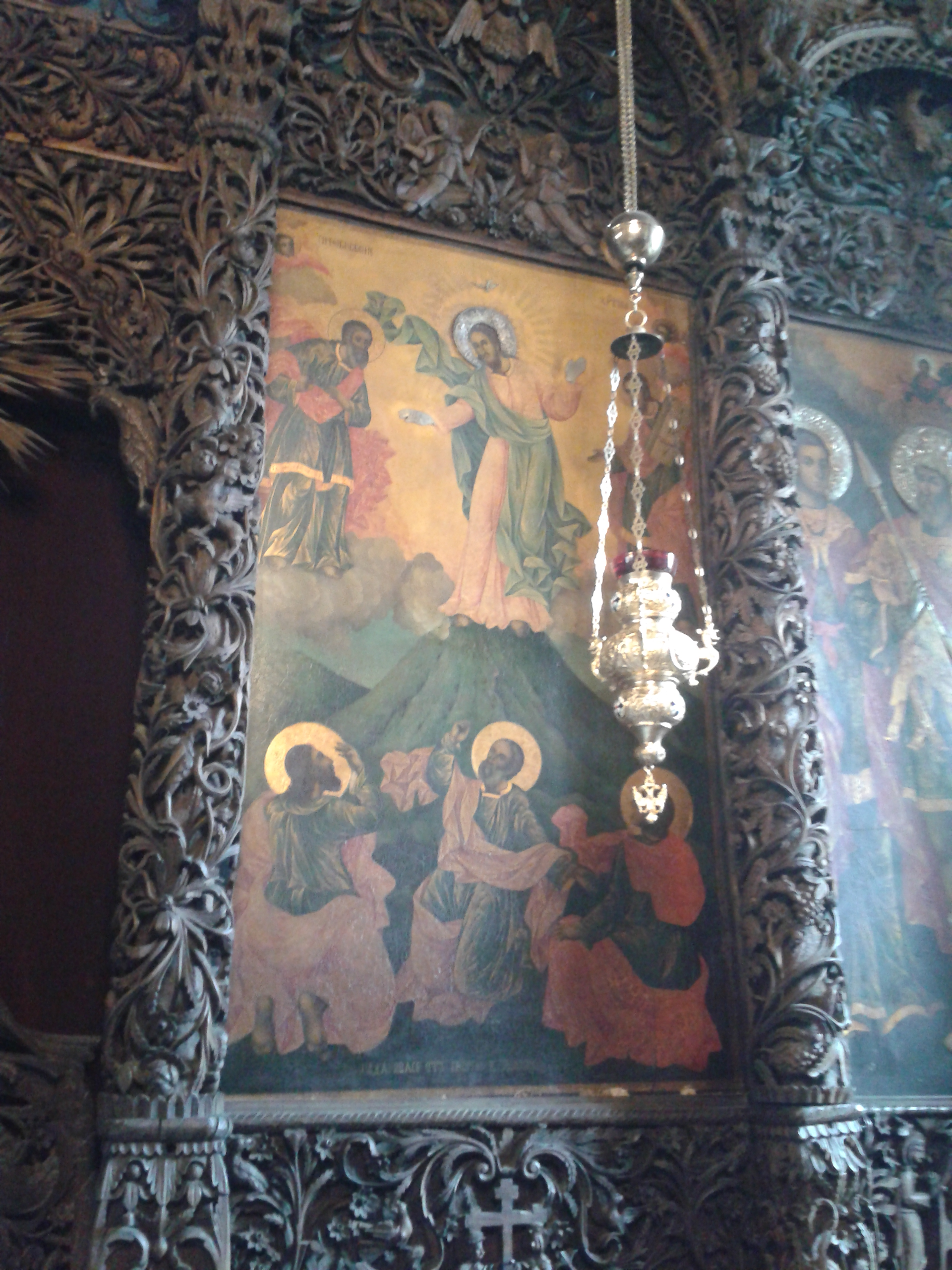 Icon in the Dormition Church in Pazardzhik.